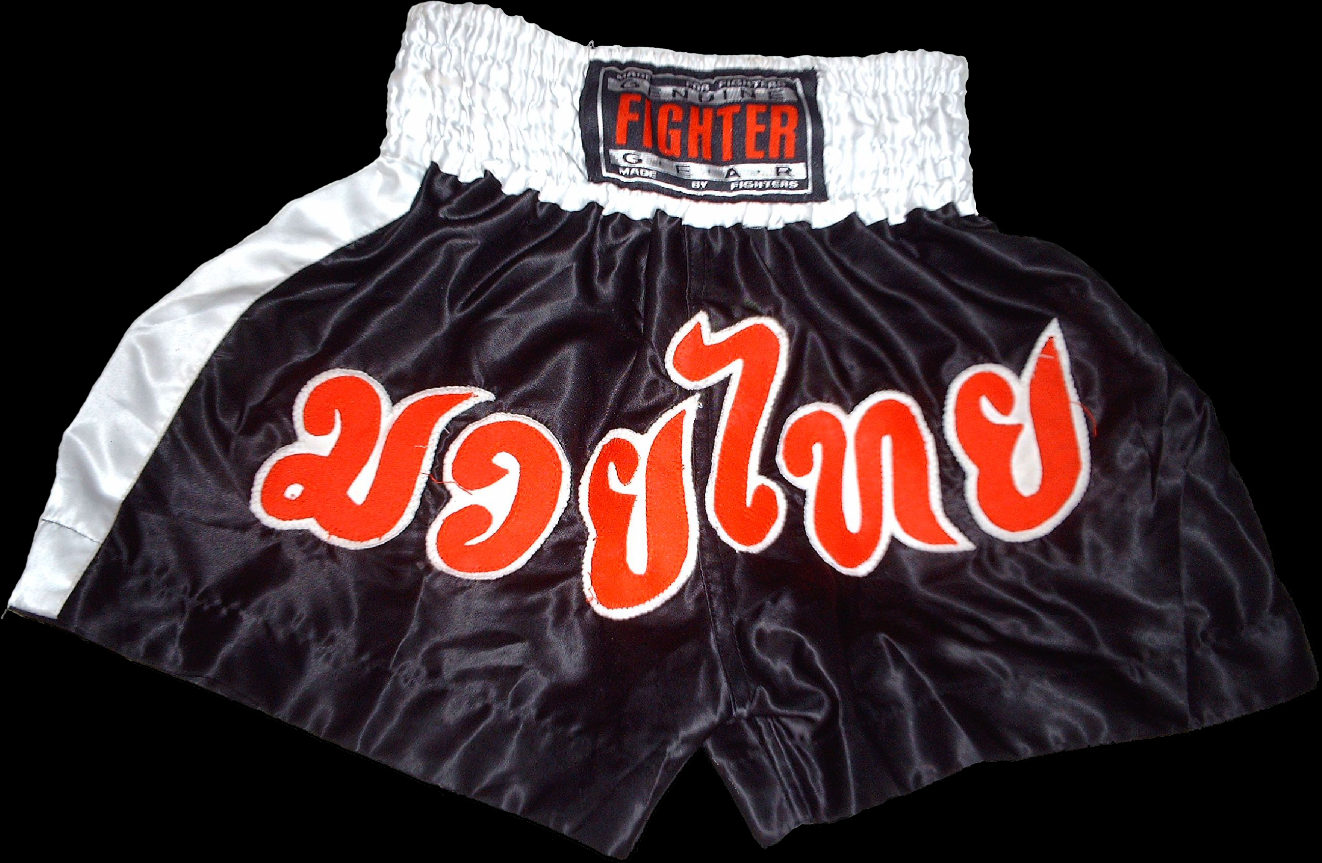 Thaiboxing shorts, with the traditional Muay Thai text written on